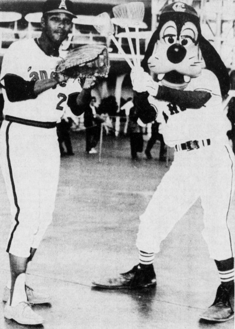 Professional baseball player Vada Pinson with Disney character Goofy in 1972.